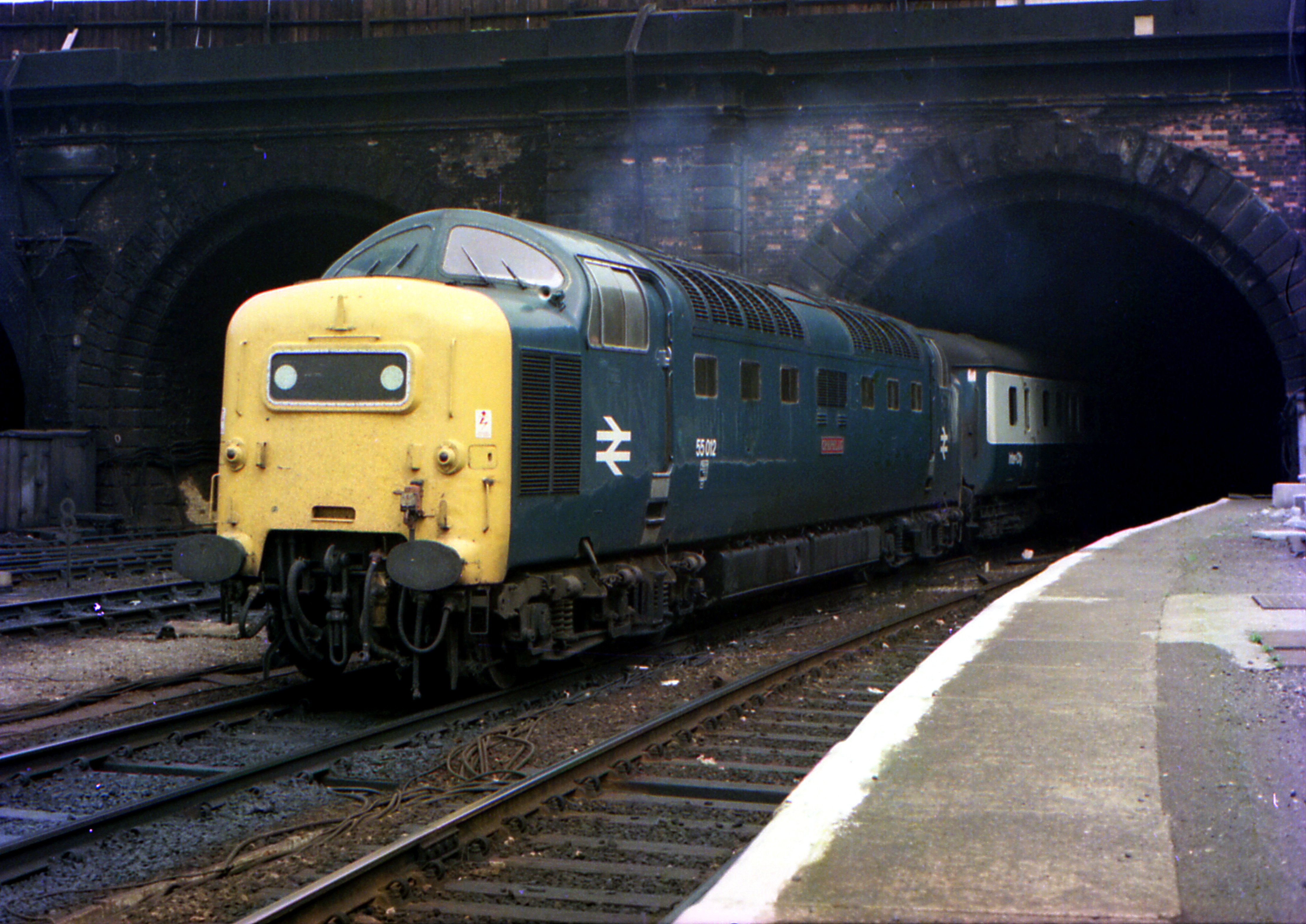 Class 55 "Deltic" diesel locomotive No. 55 012 "Crepello" (Built in 1961) exits Gasworks Tunnel and enters the environs of Kings Cross station with an up Inter City express from Edinburgh. 18/05/1976. Camera: Olympus Pen F Half Frame SLR. Film: Kodacolour.